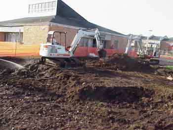 EPA excavation during cleanup of Agriculture Street Landfill Superfund site in New Orleans, Louisiana. At the Shirley Jefferson Community Center.